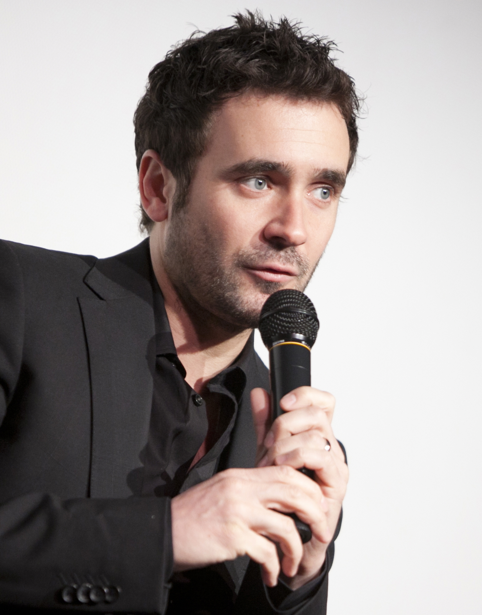 Allan Hawco visited with VFS Acting students in a discussion moderated by Head of Department Bill Marchant. The stars of the popular CBC drama talked about getting started as actors, challenges and strategies for succeeding in today’s industry, and the recent launch of season three of The Republic of Doyle. Read about their visit on the [#//blog.vfs.com/2012/01/17/republic-of-doyle-stars-visit-vfs-acting-grads VFS Blog]. Find out more about VFS's one-year Acting for Film & Television program at